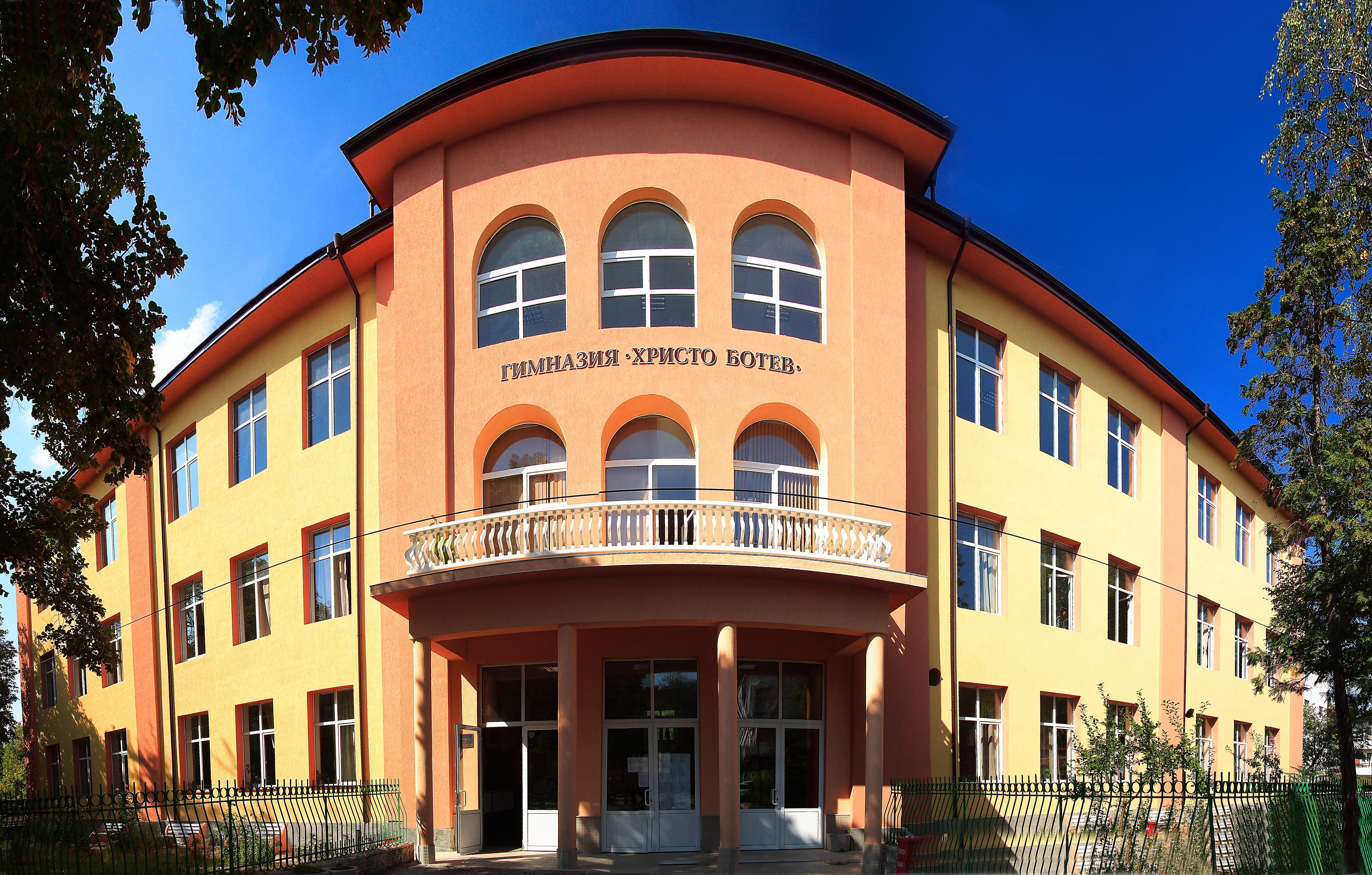 Dupnitsa School